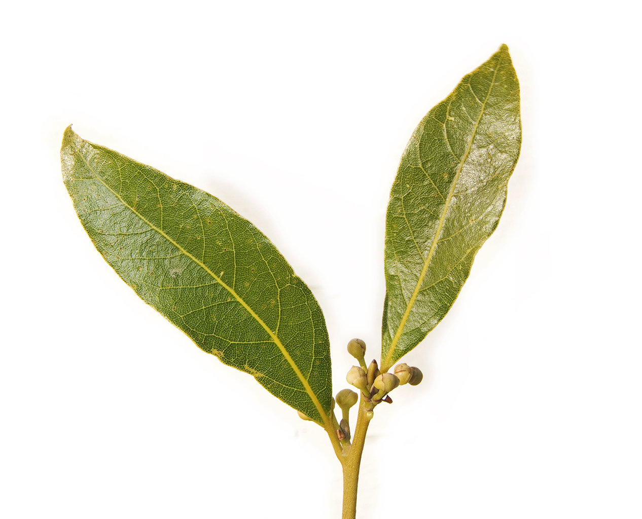 Pair of fresh leafs and flower buds of the Bay Laurel Laurus nobilis